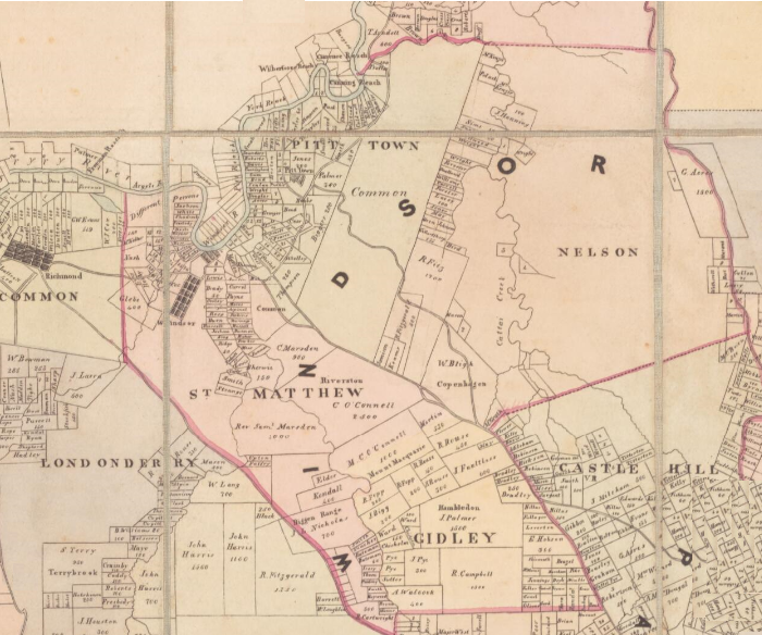 Map of the Hundred of Windsor.[1]